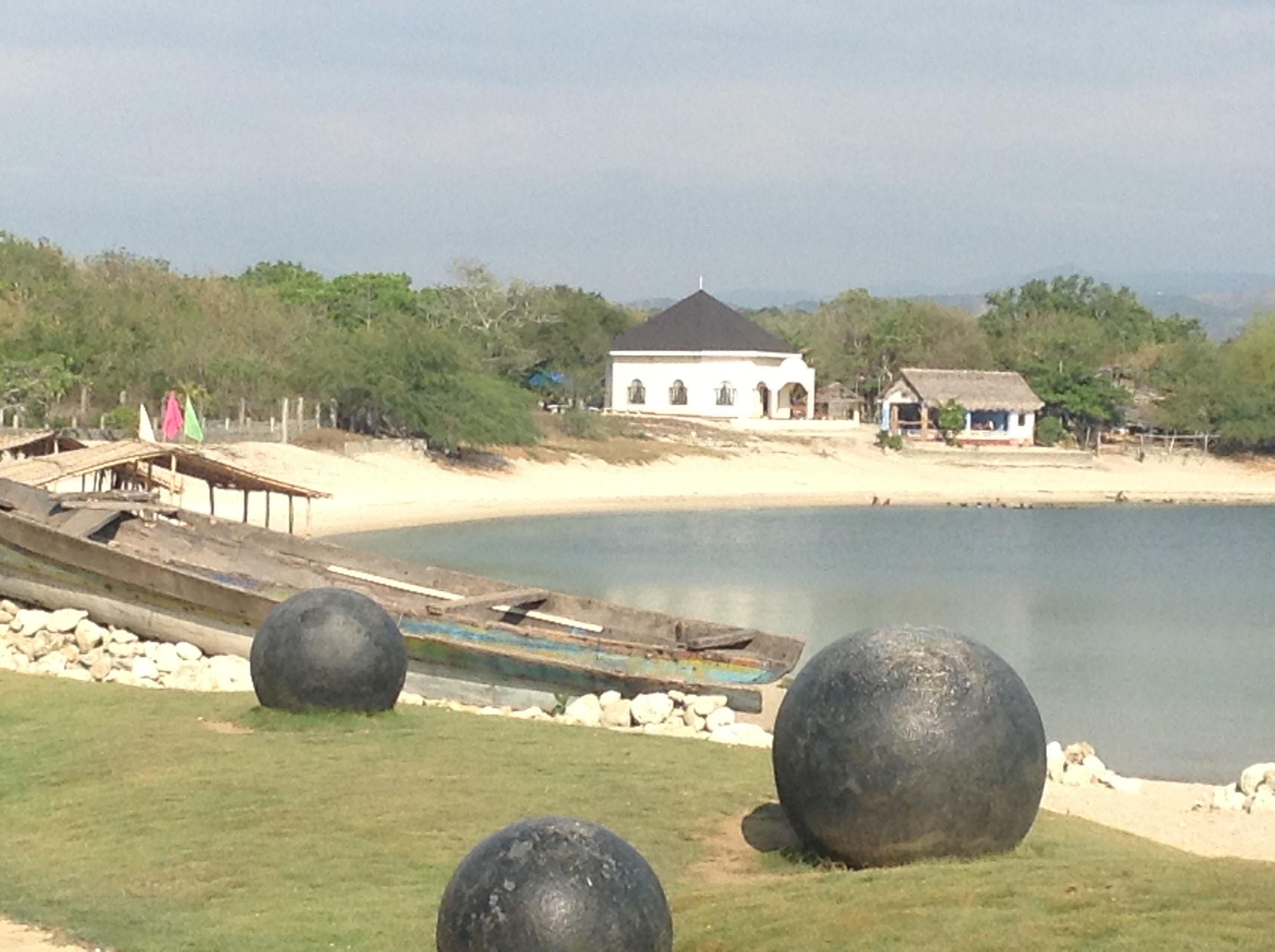 A shot of the Chapel of the Santo Cristo Milagroso in Sinait, Ilocos Sur, taken from the nearby Chapel of the La Virgen Milagrosa in Panay, Badoc, Ilocos Norte.